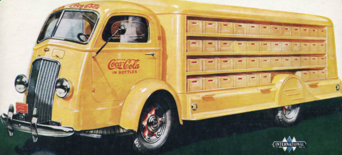 Postcard photo of International Harvester built Coca-Cola truck circa 1939.